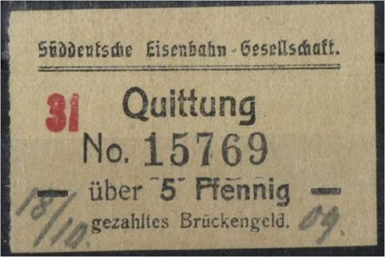 Germany: South German Railway Company; ticket, 5 Pf; 1909-10-18